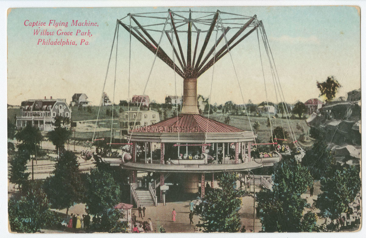 A view of the "Airships" or "Captive Flying Machine" ride at Willow Grove Park, a trolley amusement park in Willow Grove, Montgomery County.